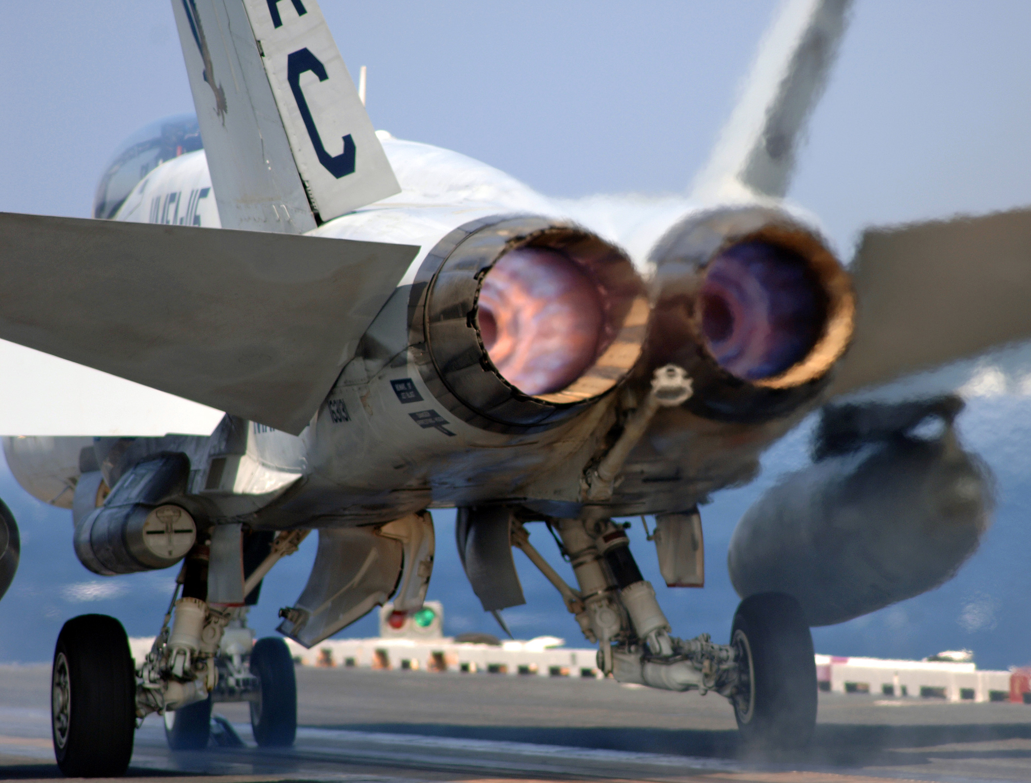 Atlantic Ocean (Oct. 15, 2005) – An F/A-18A+ Hornet, assigned to the "Silver Eagles" of Marine Fighter Attack Squadron One One Five (VMFA-115), launches off the flight deck in afterburner aboard the Nimitz-class aircraft carrier USS Harry S. Truman (CVN 75). Truman is currently conducting carrier qualifications and sustainment training with embarked Carrier Air Wing Three (CVW-3) off the East Coast. U.S. Navy photo by Photographer's Mate 3rd Class Kristopher Wilson (RELEASED)